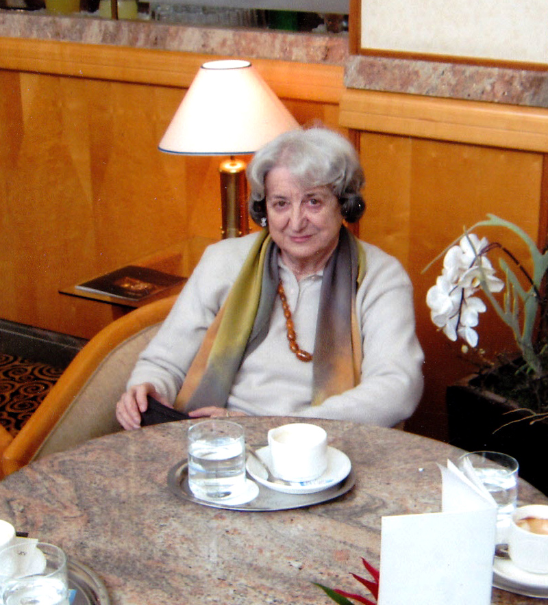 Croatian-Slovene art historian Vesna BučićSlovenščina: Hrvaško-slovenska umetnostna zgodovinarka Vesna Bučić daje intervju za mariborski častnik Večer